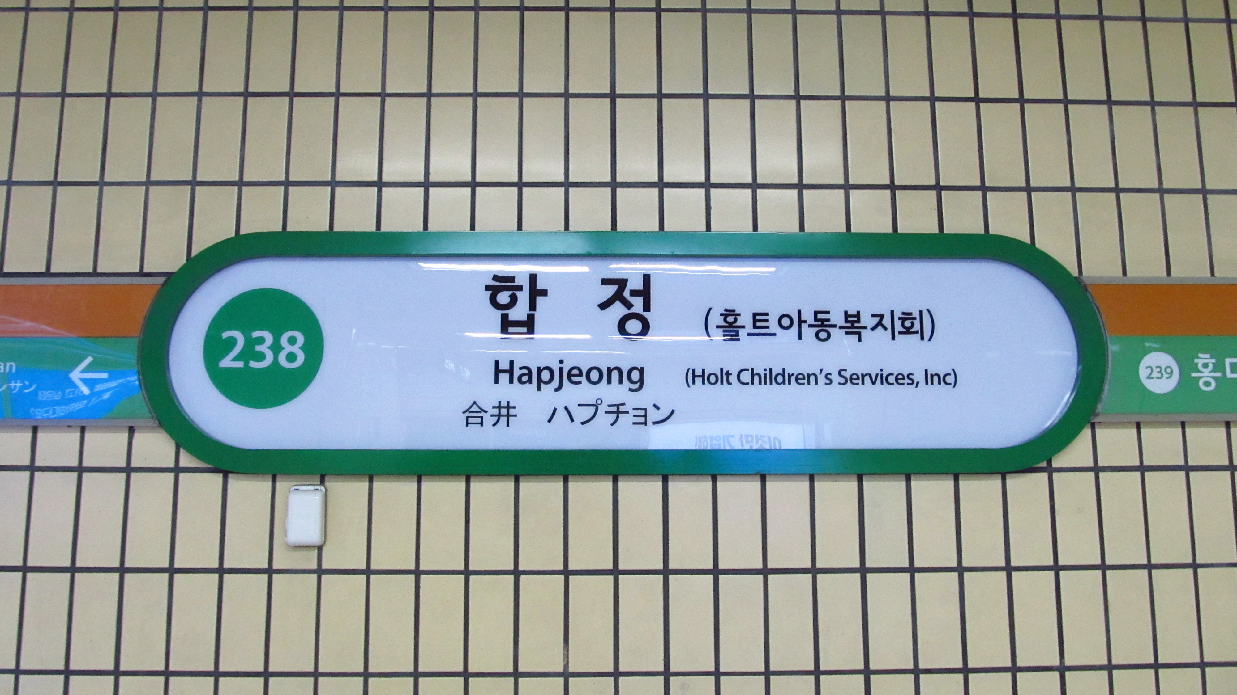 A sign of Hapjeong Station on Seoul Subway Line 2